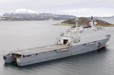 Dutch naval ship Rotterdam (1998)